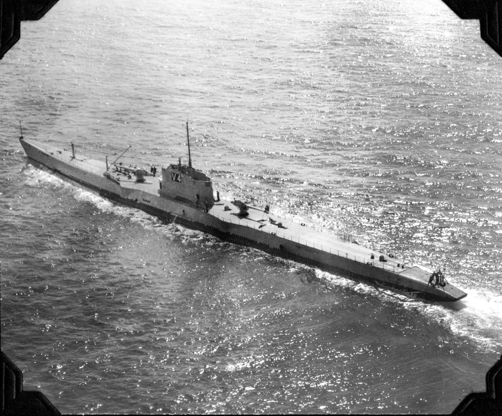 PictionID:38274323 - Catalog:AL-135B 026 - Filename:AL-135B 026.tif - This image is from a photo album donated to the Museum by JL Highfill which includes images taken in the Pacific during the Second World War-----------PLEASE TAG this image with any information you know about it, so that we can permanently store this data with the original image file in our Digital Asset Management System.-----------------SOURCE INSTITUTION: San Diego Air and Space Museum Archive